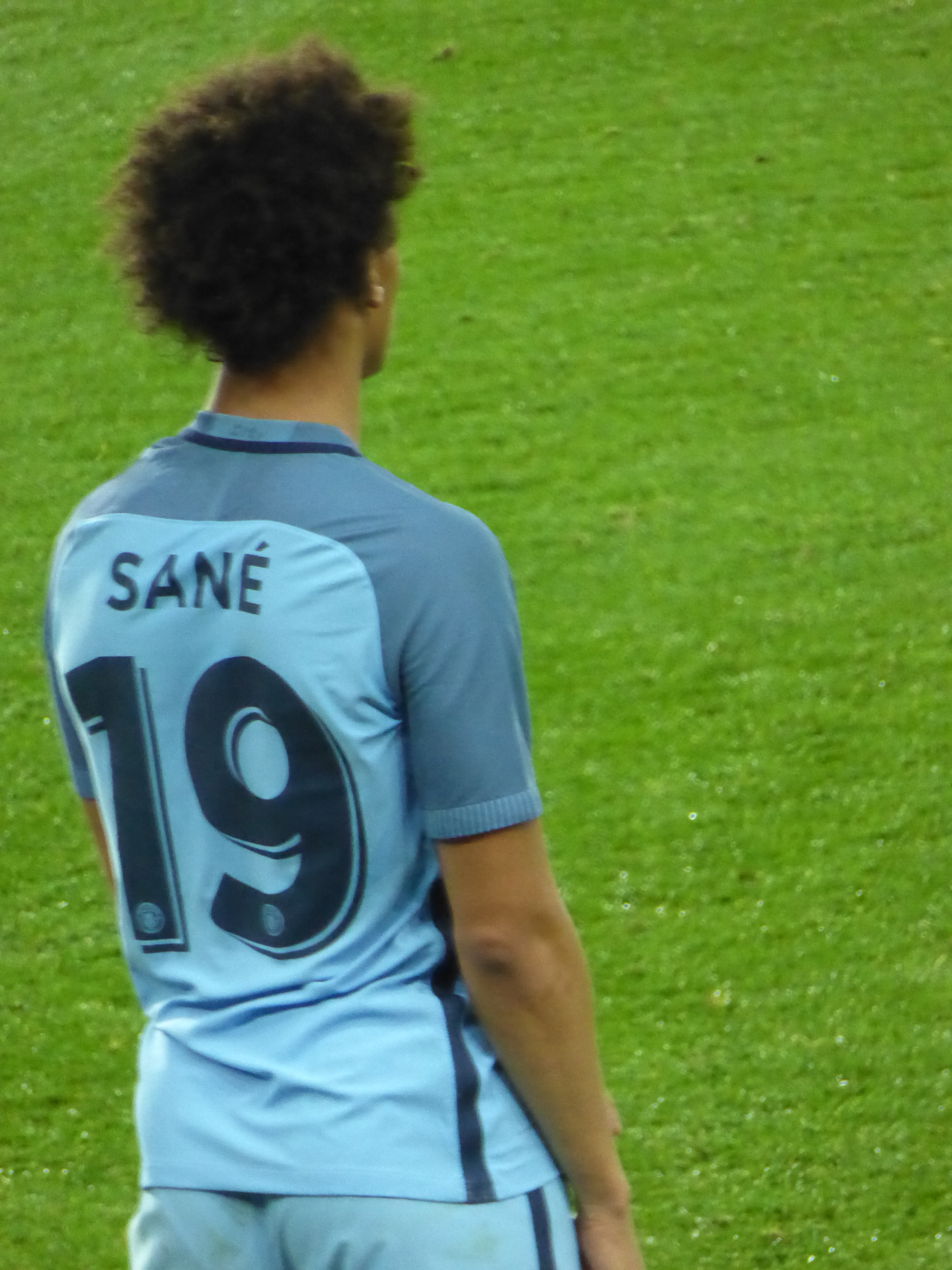 Manchester United v Manchester City (1-0), EFL Cup, Old Trafford, Manchester, Greater Manchester, England, October 2016